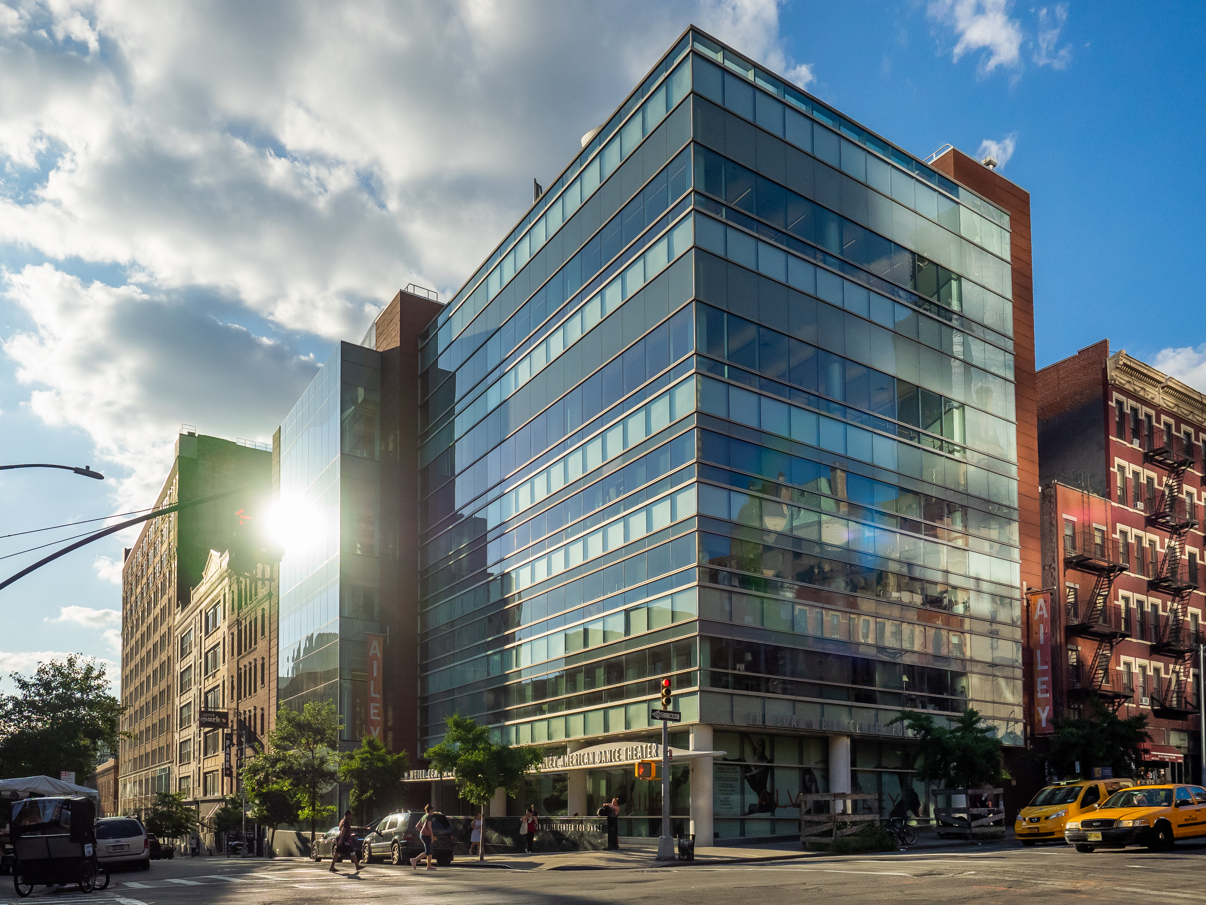 Midtown Manhattan, New York City